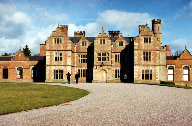 Brynkinalt Hall, Chirk. Looking north showing the frontage of the house. The house is about 1km east of Chirk and overlooks the Ceiriog Valley which at this point forms the English/Welsh border. The house stands a few hundred yards into Wales.